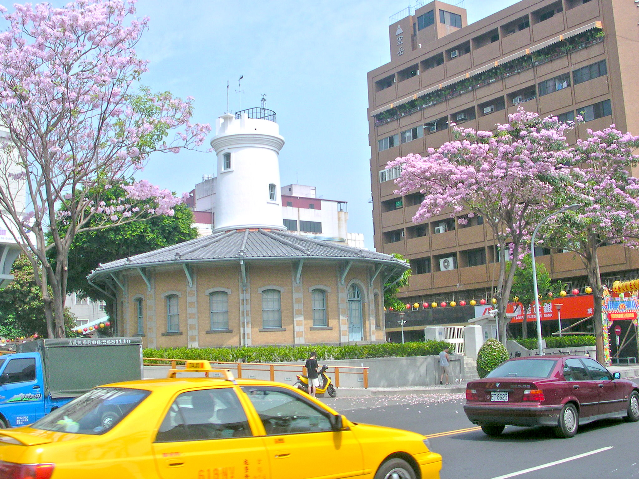 Former Meteorological Station, Tainan.